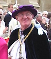 Officers of the Most Noble Order of the Garter, in procession to St George's Chapel, Windsor Castle for the annual service of the Order of the Garter. L-R: Secretary (barely visible), Gentleman Usher of the Black Rod, Garter Principal King of Arms, Register, Prelate, Chancellor